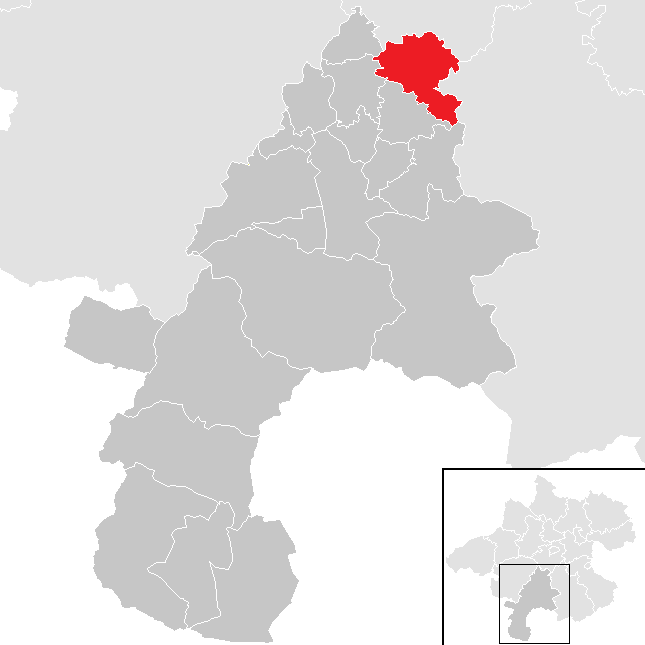 district Gmunden